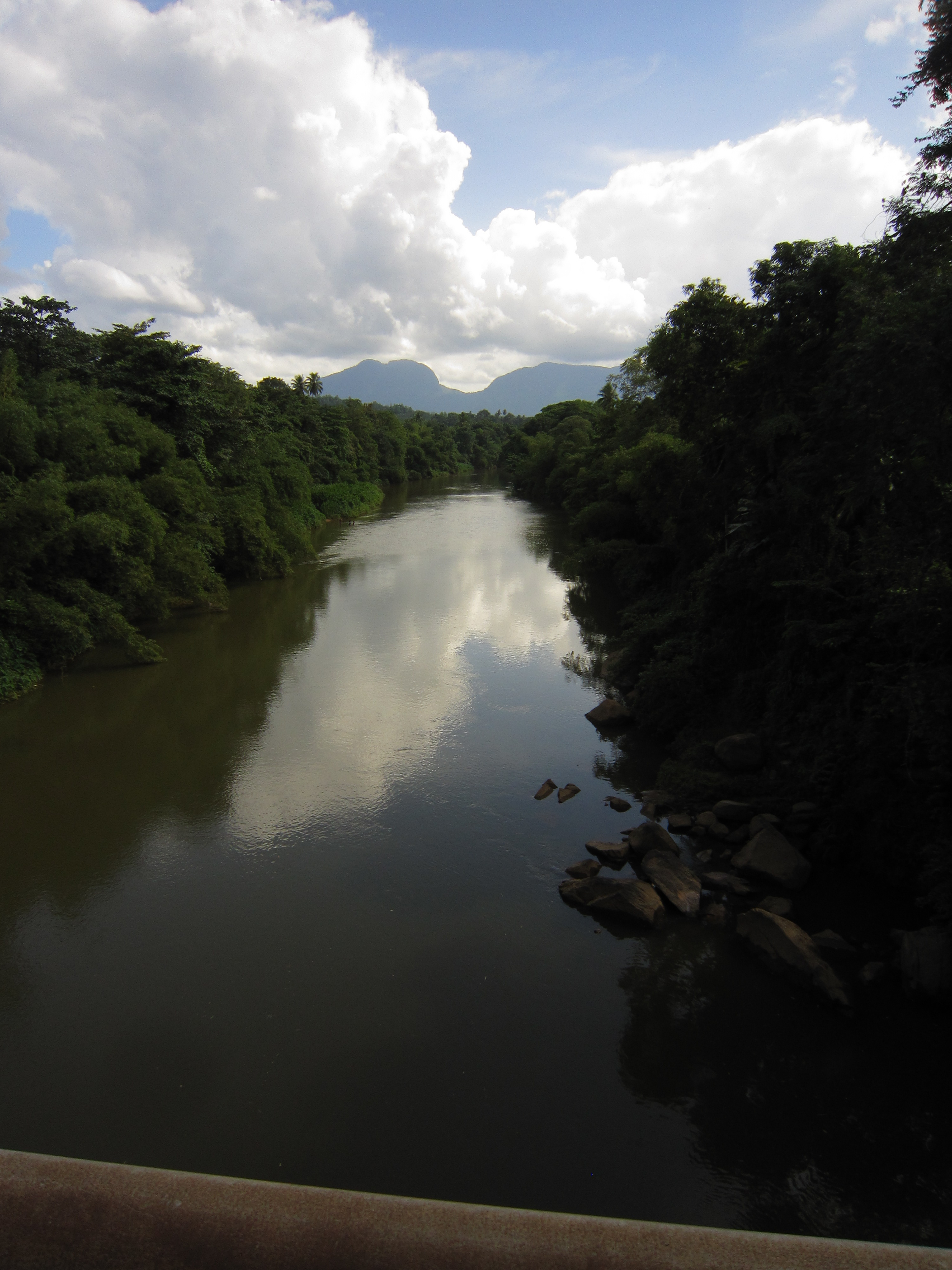 River Kalu in Ratnapura (down stream)